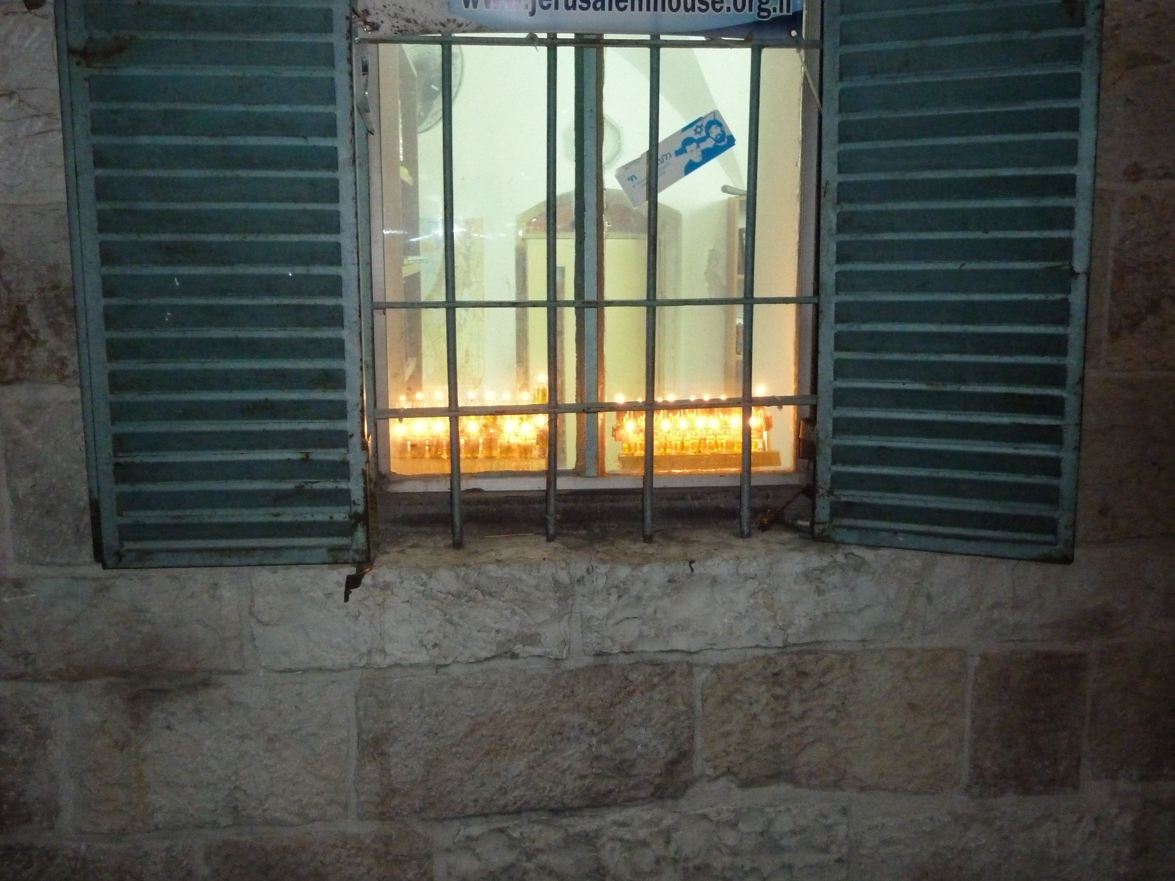 Old Jerusalem, Heritage House Jerusalem Hostel, Ohr HaChaim st.#2 corner of Ararat Rd., Hanukiot during Hanukkah festival (8th day) at window with Gilad Shalit becoming Ron Arad sticker